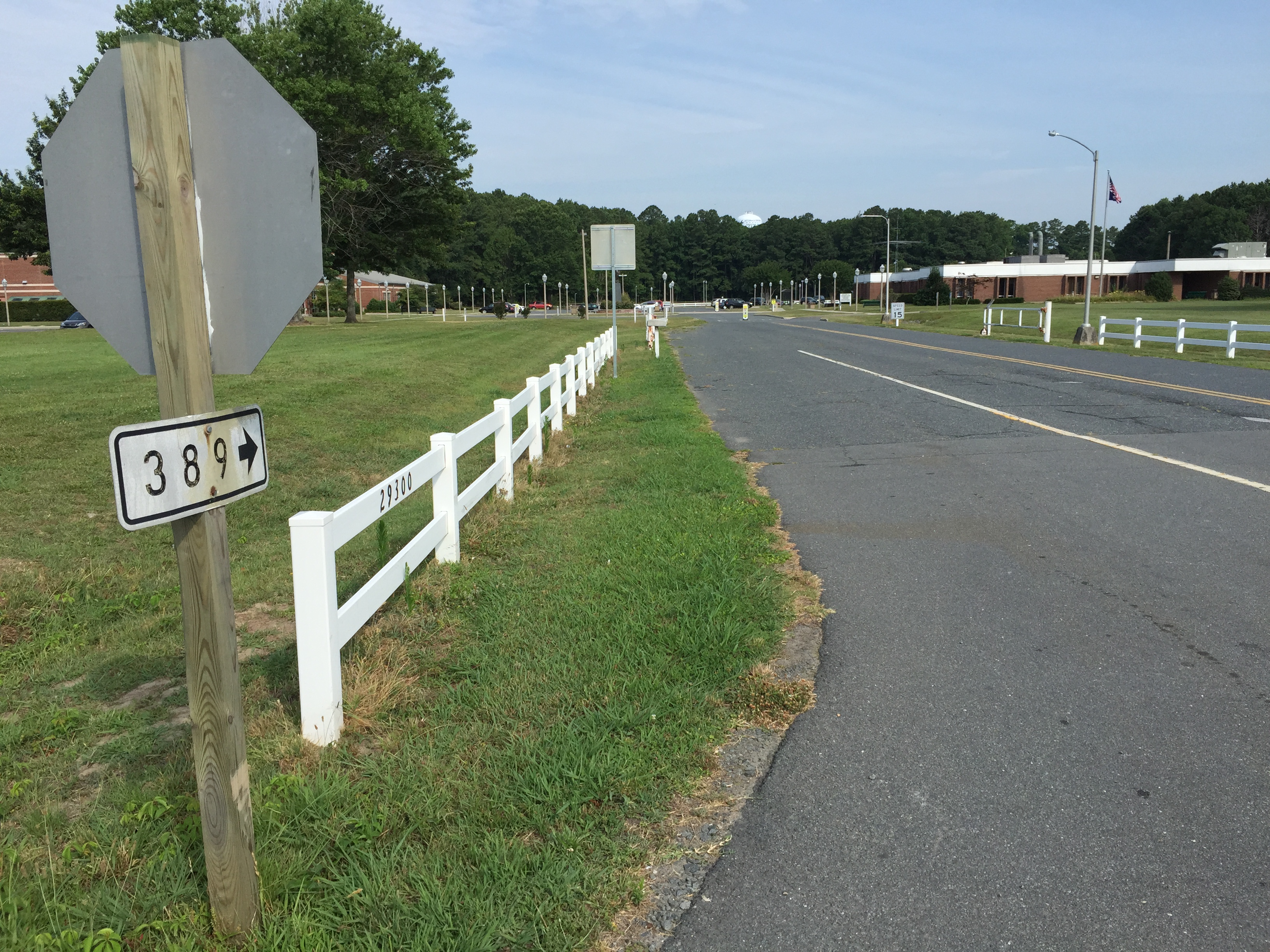 View west along Virginia State Route 389 at U.S. Route 13 (Lankford Highway) at the Eastern Shore Community College, Melfa Campus in southern Accomack County, Virginia